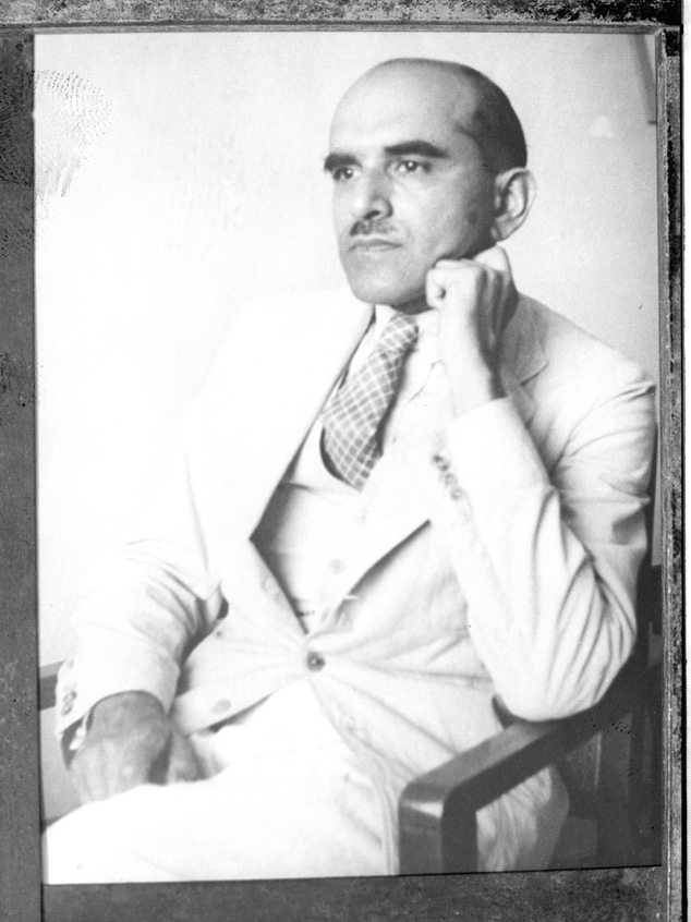 Image of Fyzee